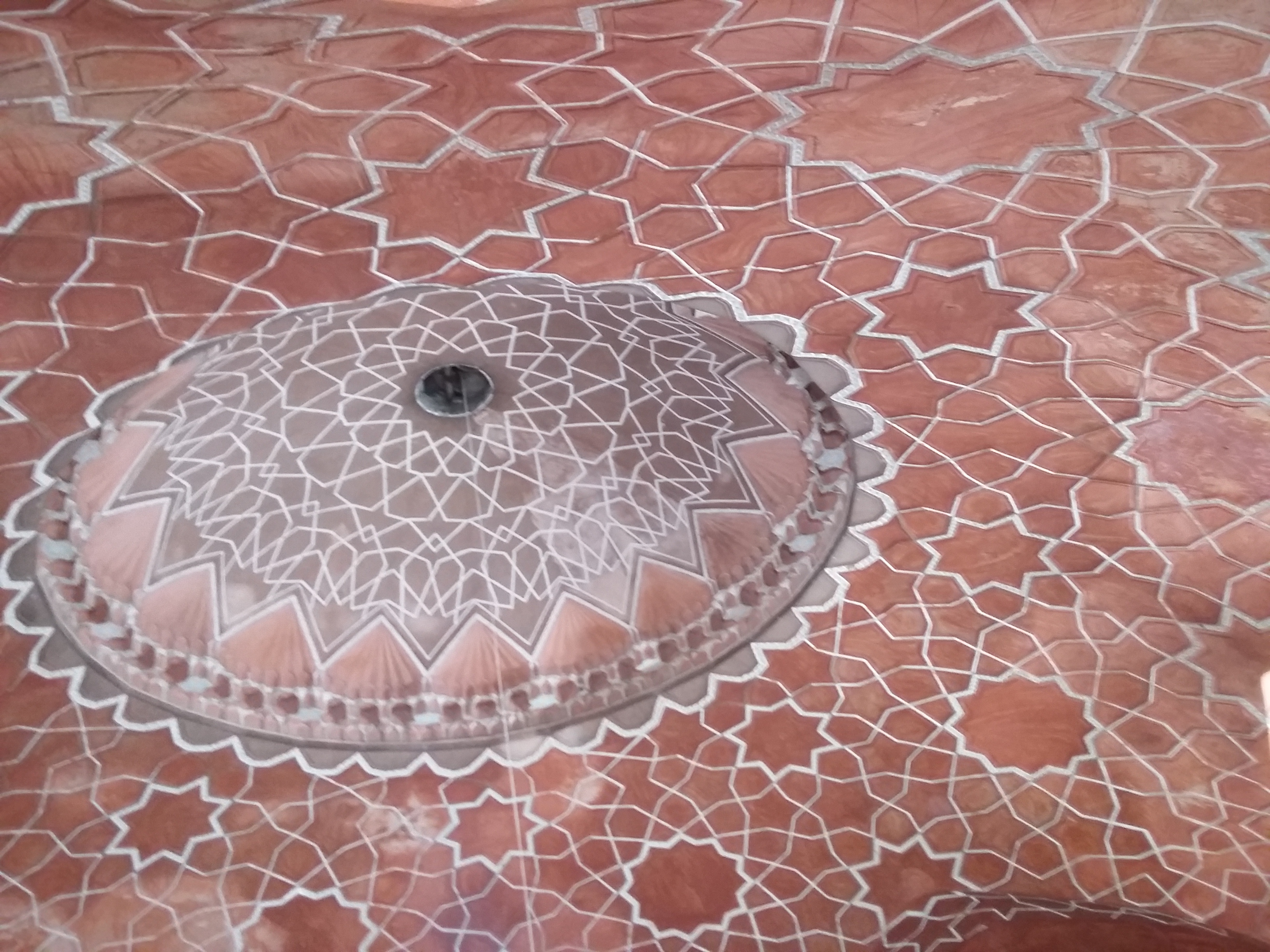 Interior decoration of the tomb of Qutb al-Din Haider